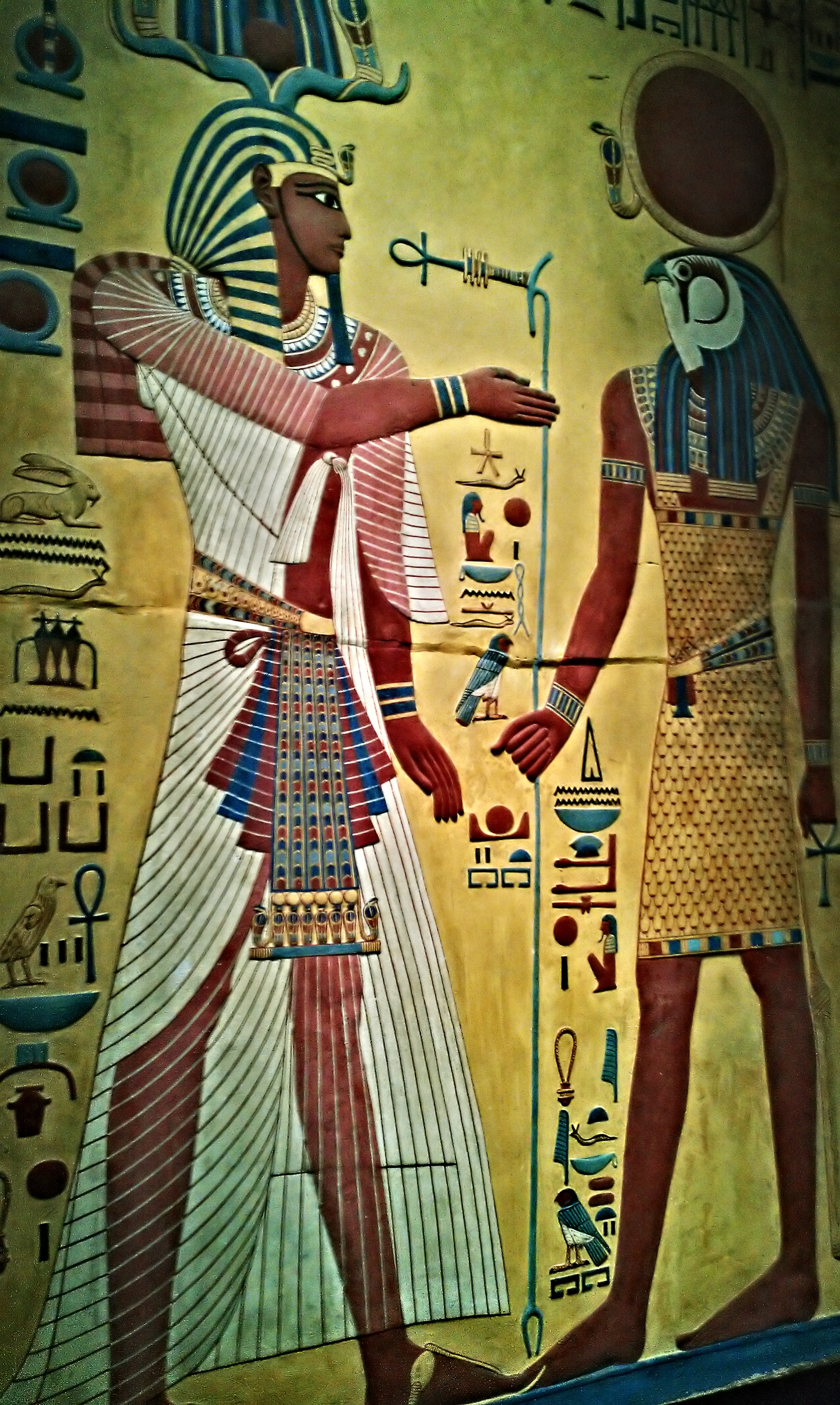 Cast from Tomb of King Merenptah - British Museum